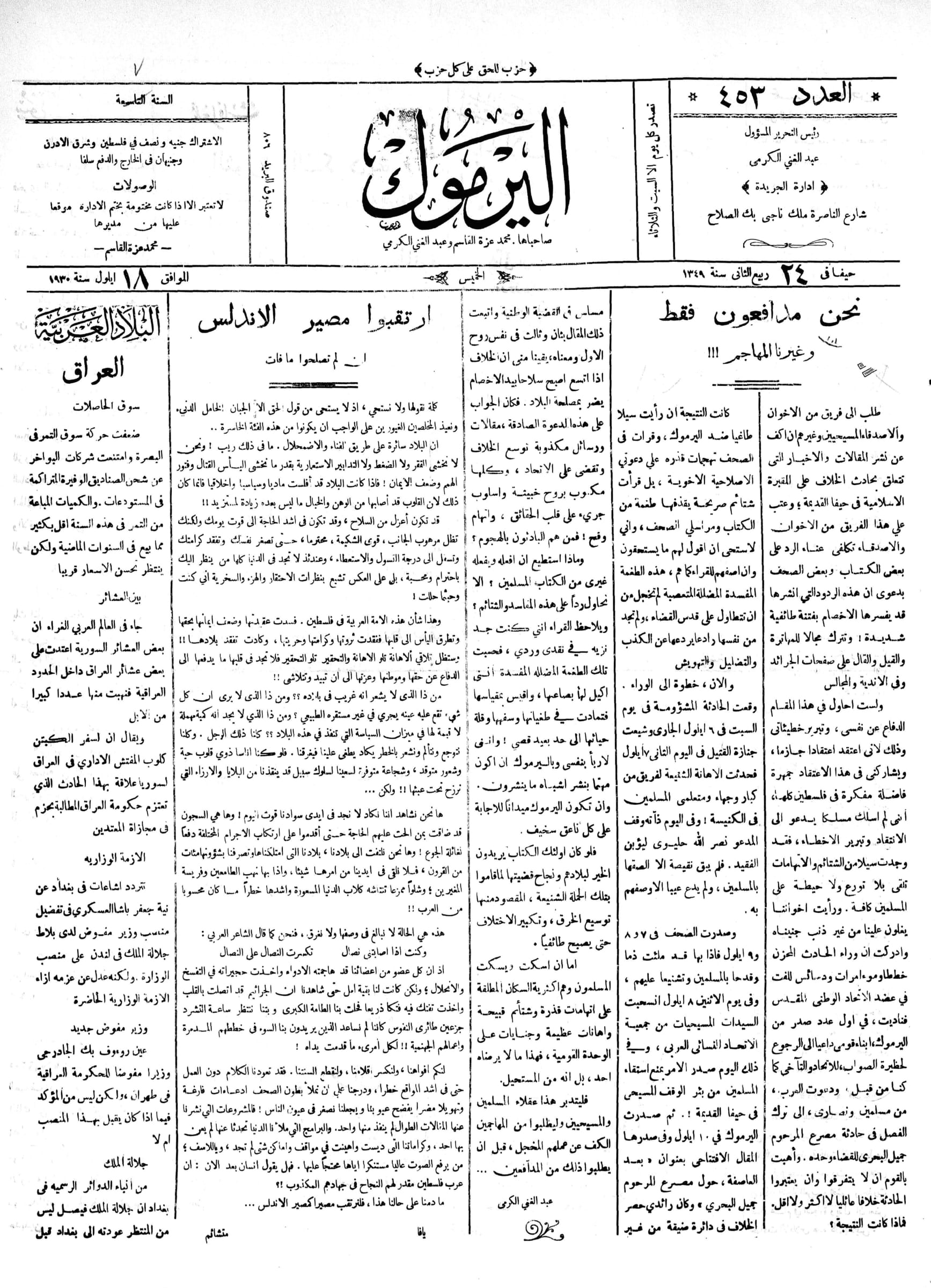 Yarmuk, Palestinian newspaper